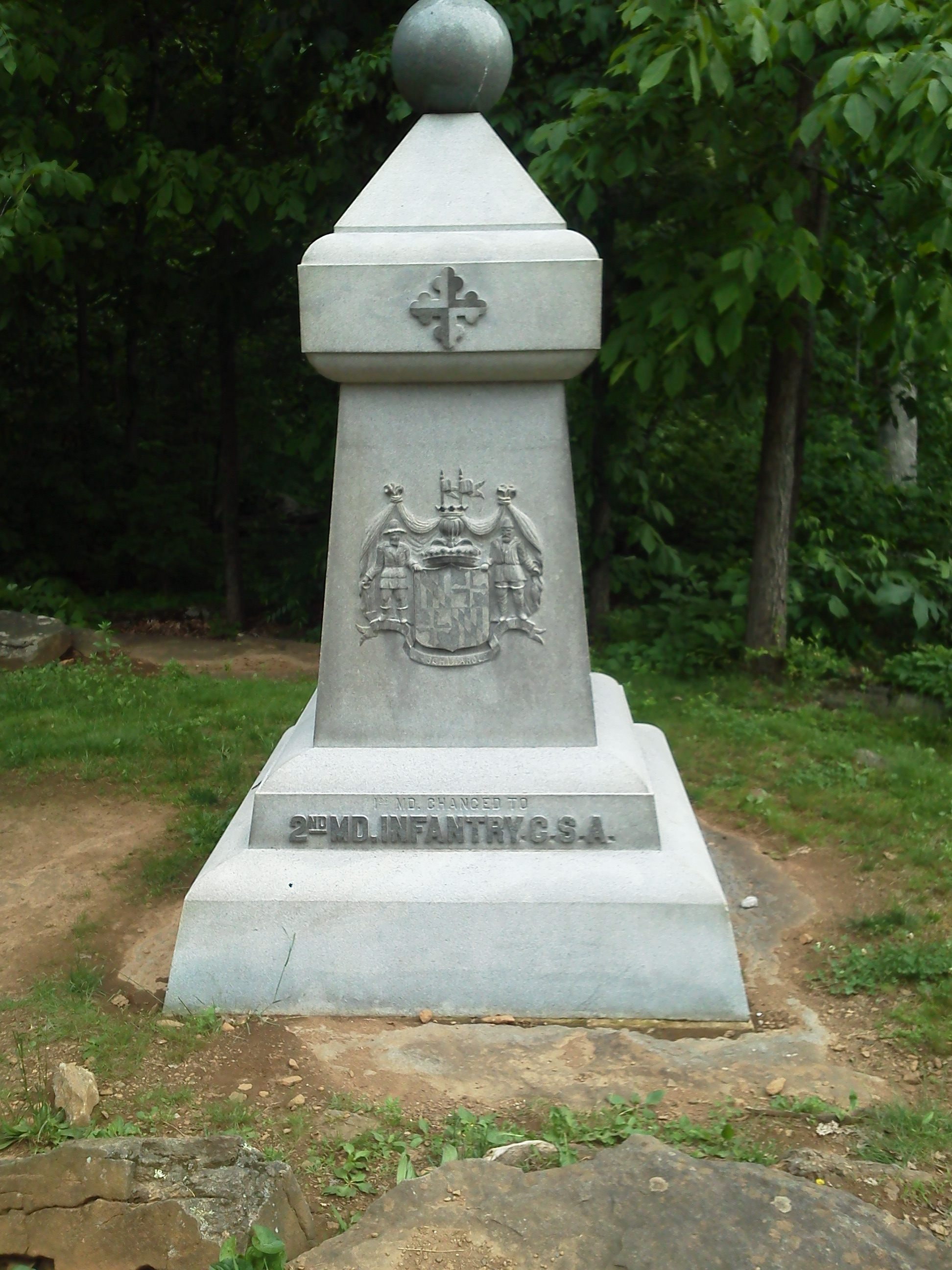 The 2nd Maryland Infantry monument found at Gettysburg Battlefield